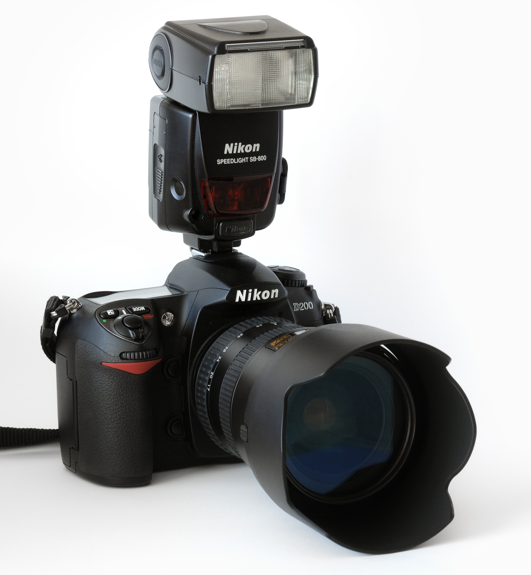 This image shows a Nikon D200 camera with a Nikon 17-55 mm / 2,8 G AF-S DX IF-ED lens and a Nikon SB-800 flash.